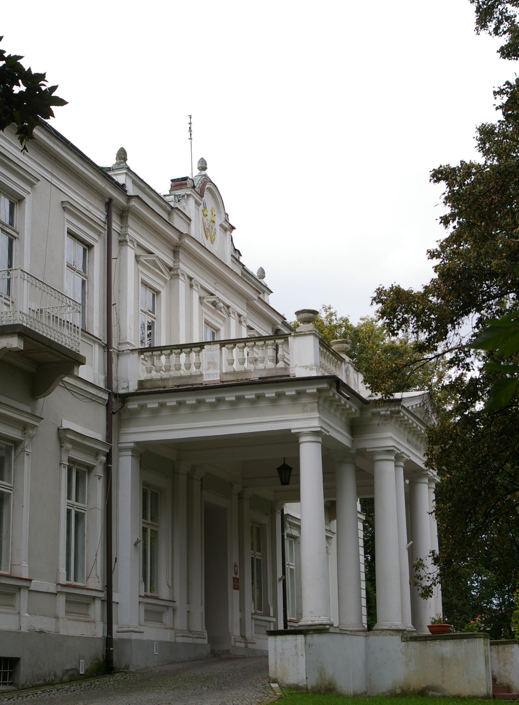 Museum in Ostrowiec Świętokrzyski